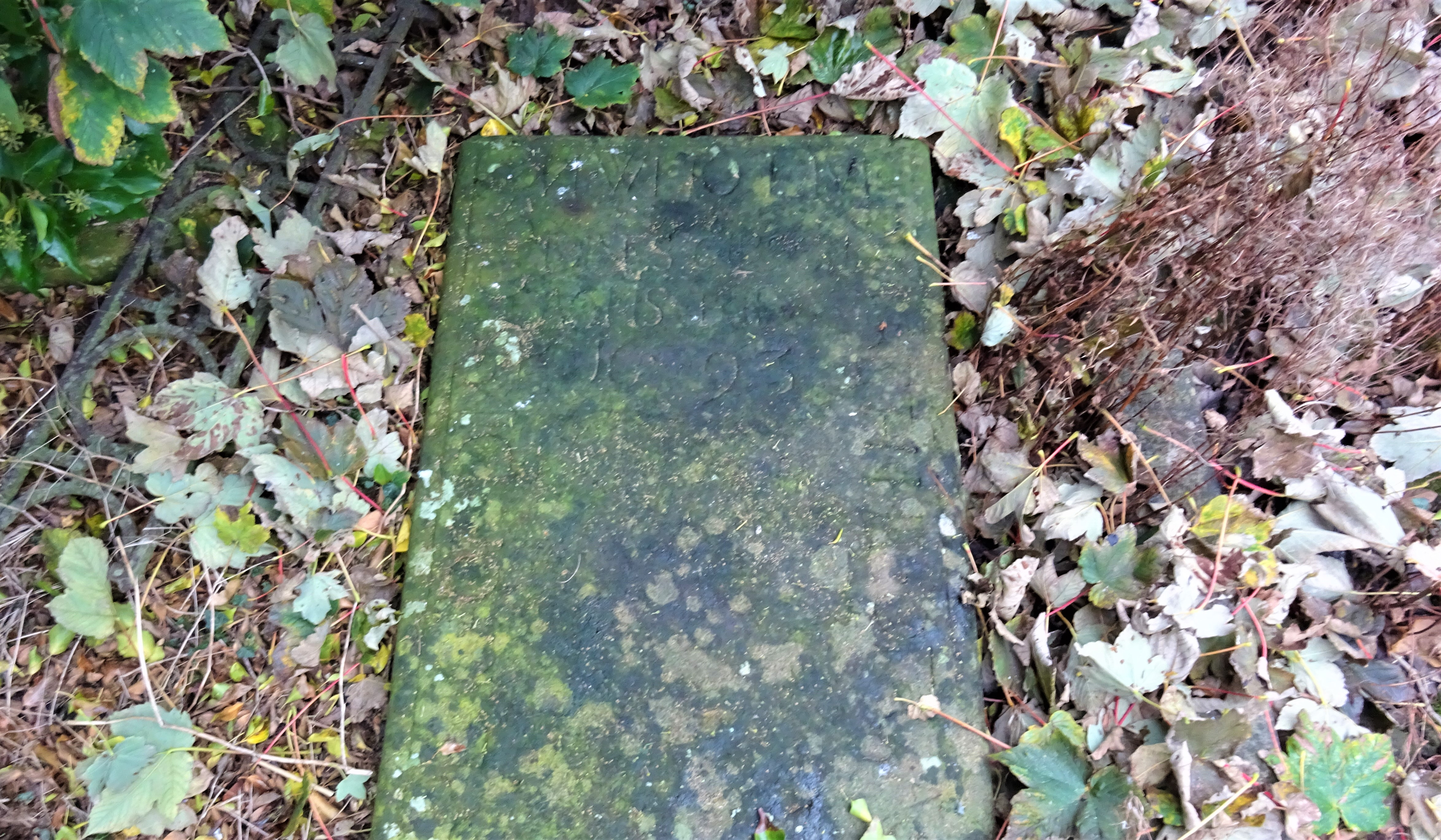 Chalmer of Gadgirth gravestone, Coylton old parish church, South Ayrshire. Dated 1693. William or John Chalmer of Gadgirth.